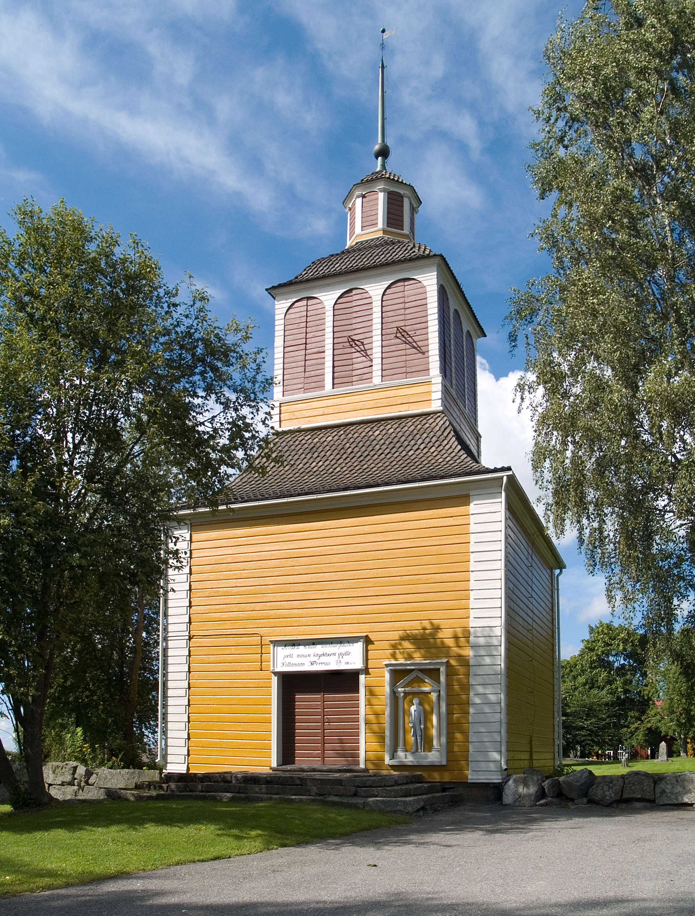 The separate steeple of the Vähäkyrö Lutheran church in Vähäkyrö, Vaasa, Finland.